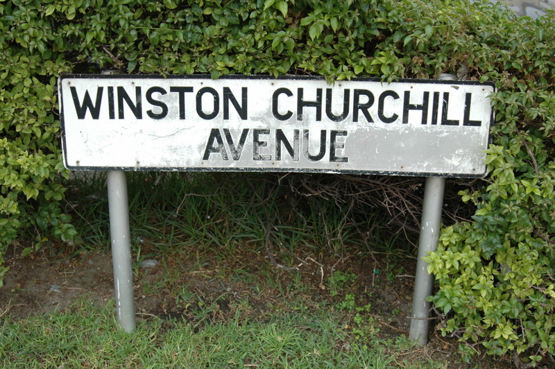 Winston Churchill Avenue Gibraltar